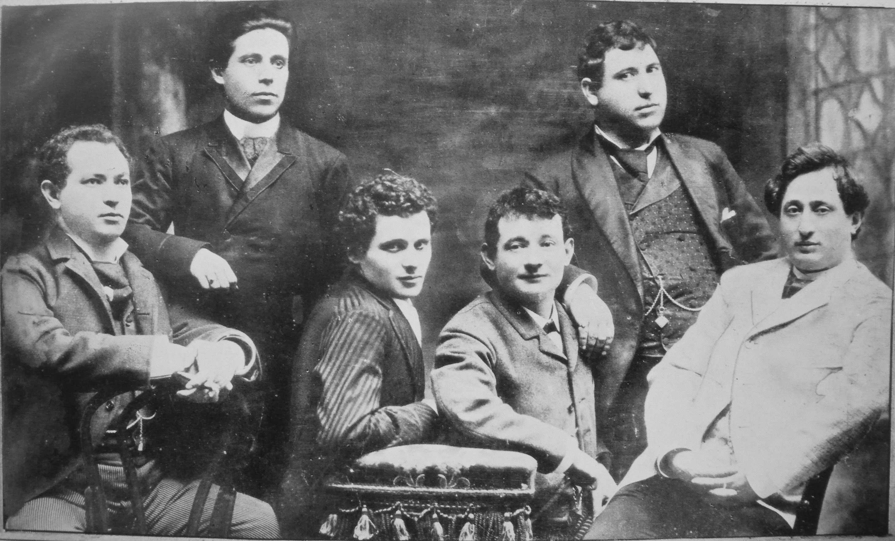 Yiddish theater actors and personalities: from left to right: Jacob P. Adler, Zigmund Feinman, Zigmund Mogulesko, Rudolf Marx, Mr. Krastoshinsky and David Kessler